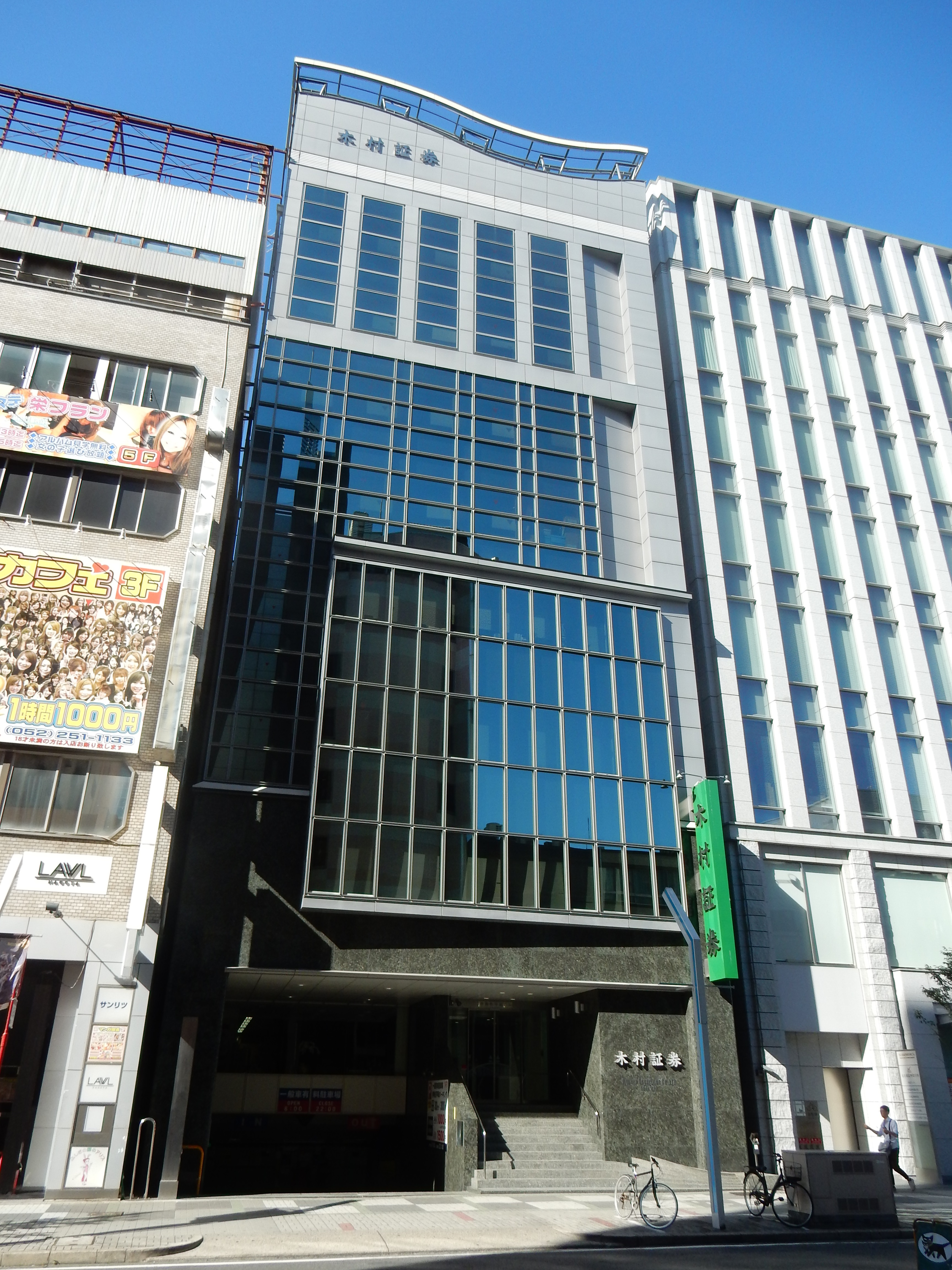 Kimura Securities headquarters, located at 3-8-21 Sakae, Naka, Nagoya, Aichi, Japan